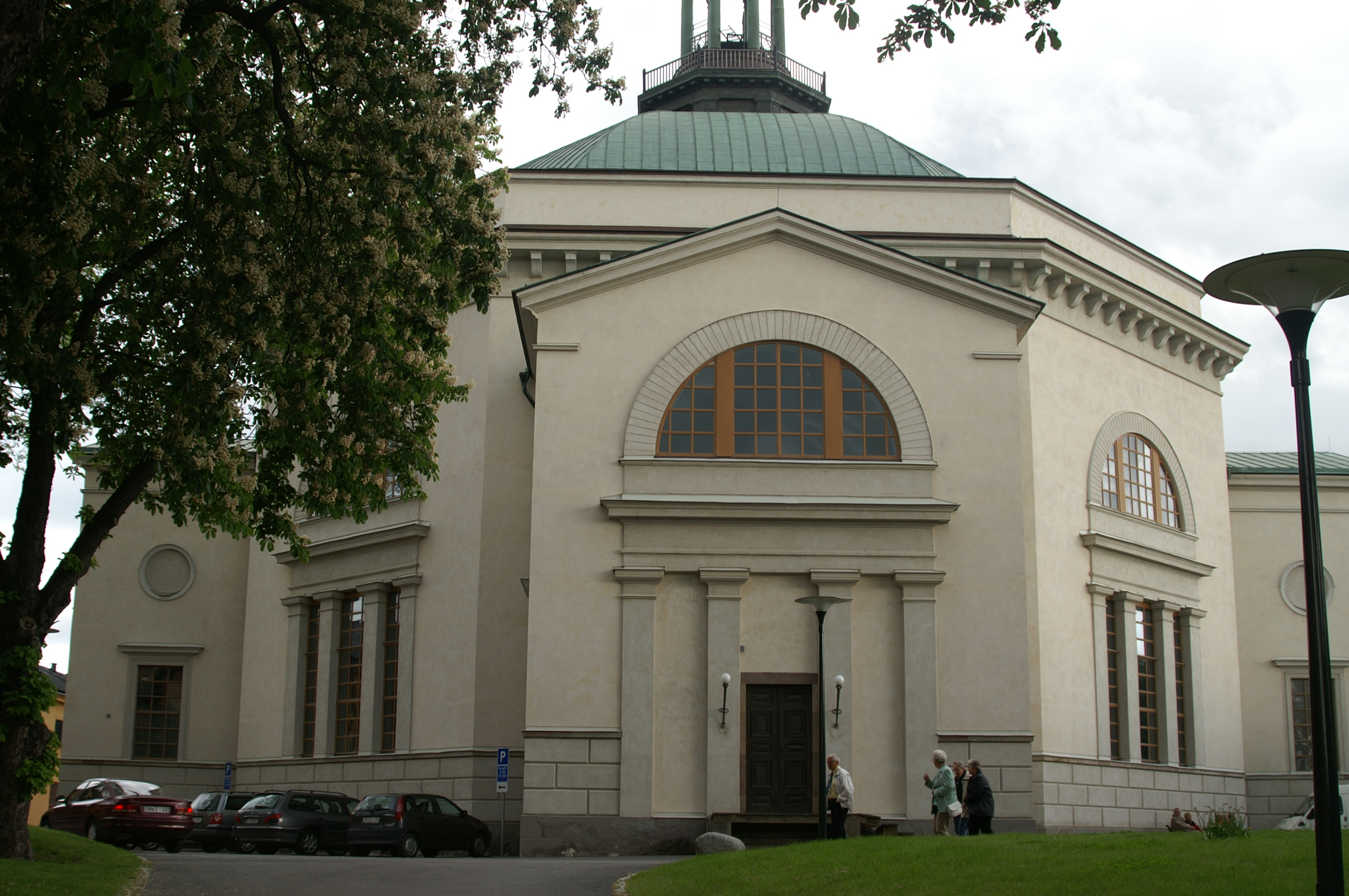 Description: Skeppsholmskyrkan (Stockholm, Sweden). Capture date: June 2005 Source: Self-made Photographer: Alexander Augst